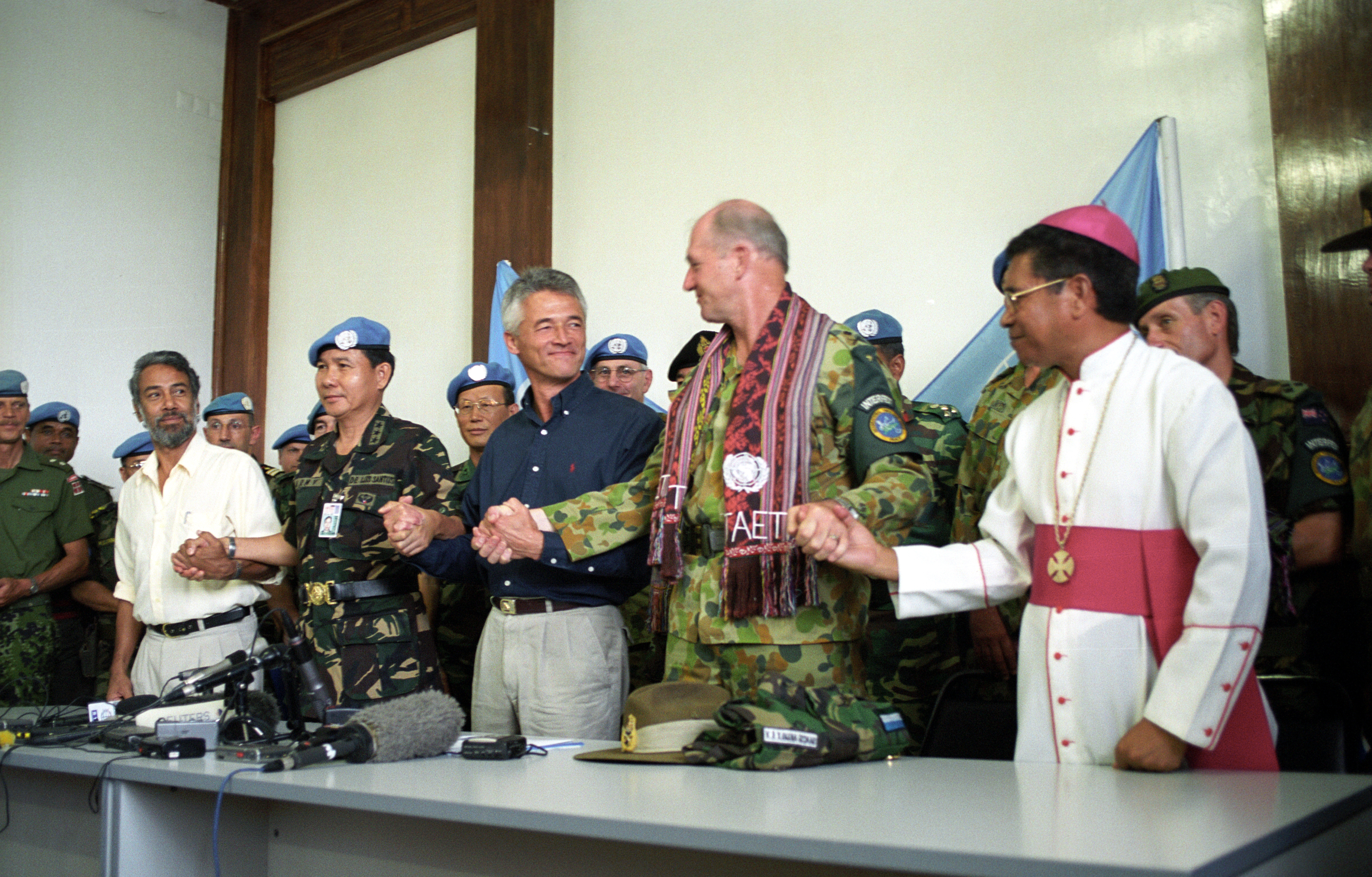 Timor: INTERFET-UNTAET handover ‘Commander INTERFET, MAJ GEN Cosgrove joins hands with the new East Timor leadership during a celebration to mark the official handover from INTERFET to UNTAET’ [Defence] (Carlos Filipe Ximenes Belo, Sérgio Vieira de Mello, Peter Cosgrove, Xanana Gusmão, Songkitti Jaggabatara) Photo used in ACMC Conceptual Framework.